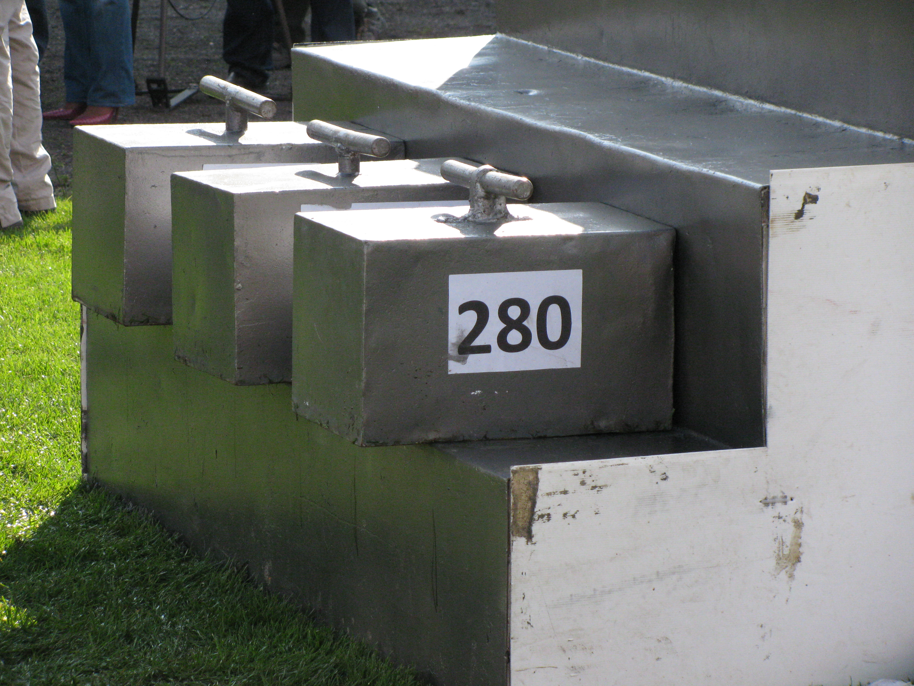 Strongman event: Power Stairs